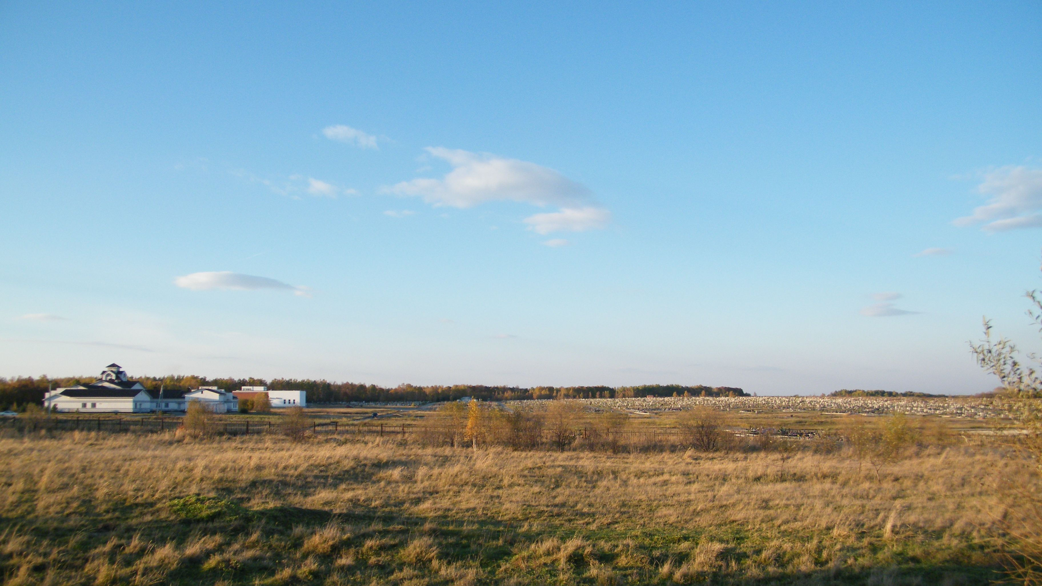 Khabarovsk Krai